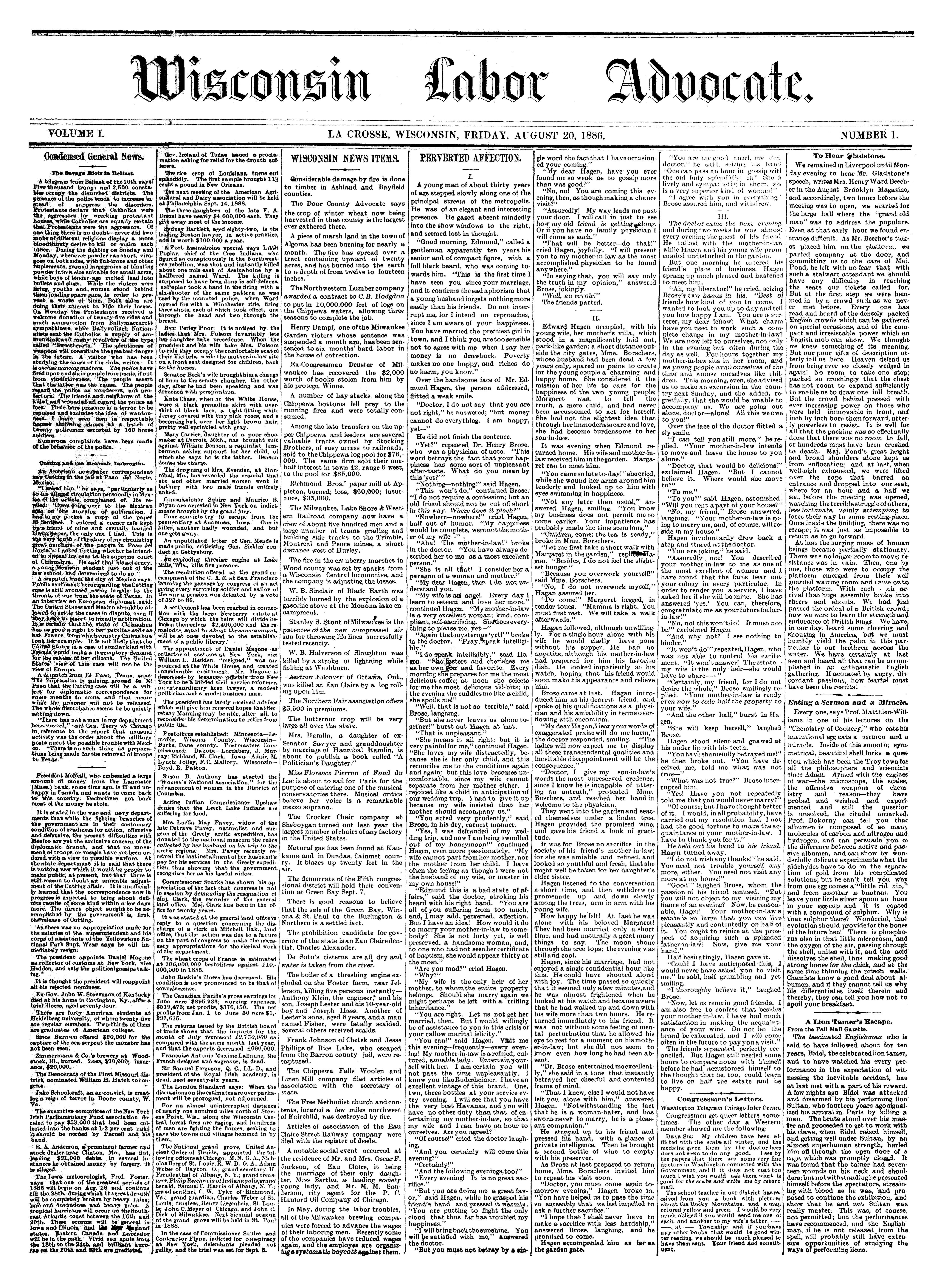 Front page of the inaugural issue of the Wisconsin Labor Advocate, a labor newspaper published by George Edwin Taylor in LaCrosse, Wisconsin from 1886 to 1887. Dated August 20, 1886.